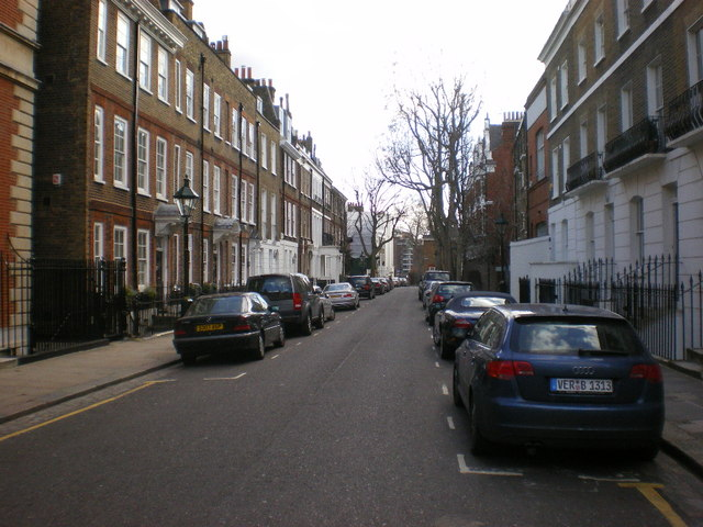 Cheyne Row SW3